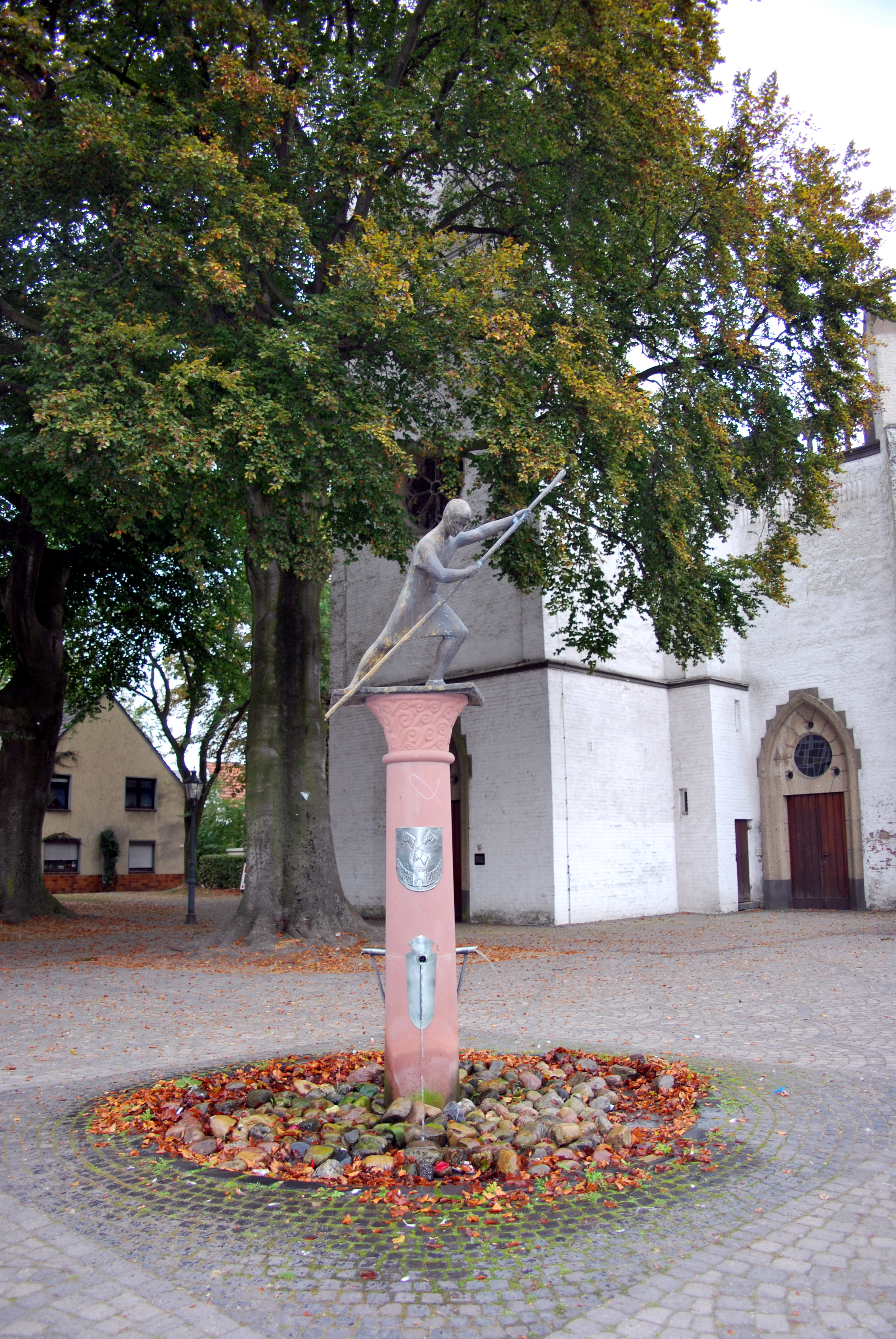 Fountain at the protestant church Orsoy